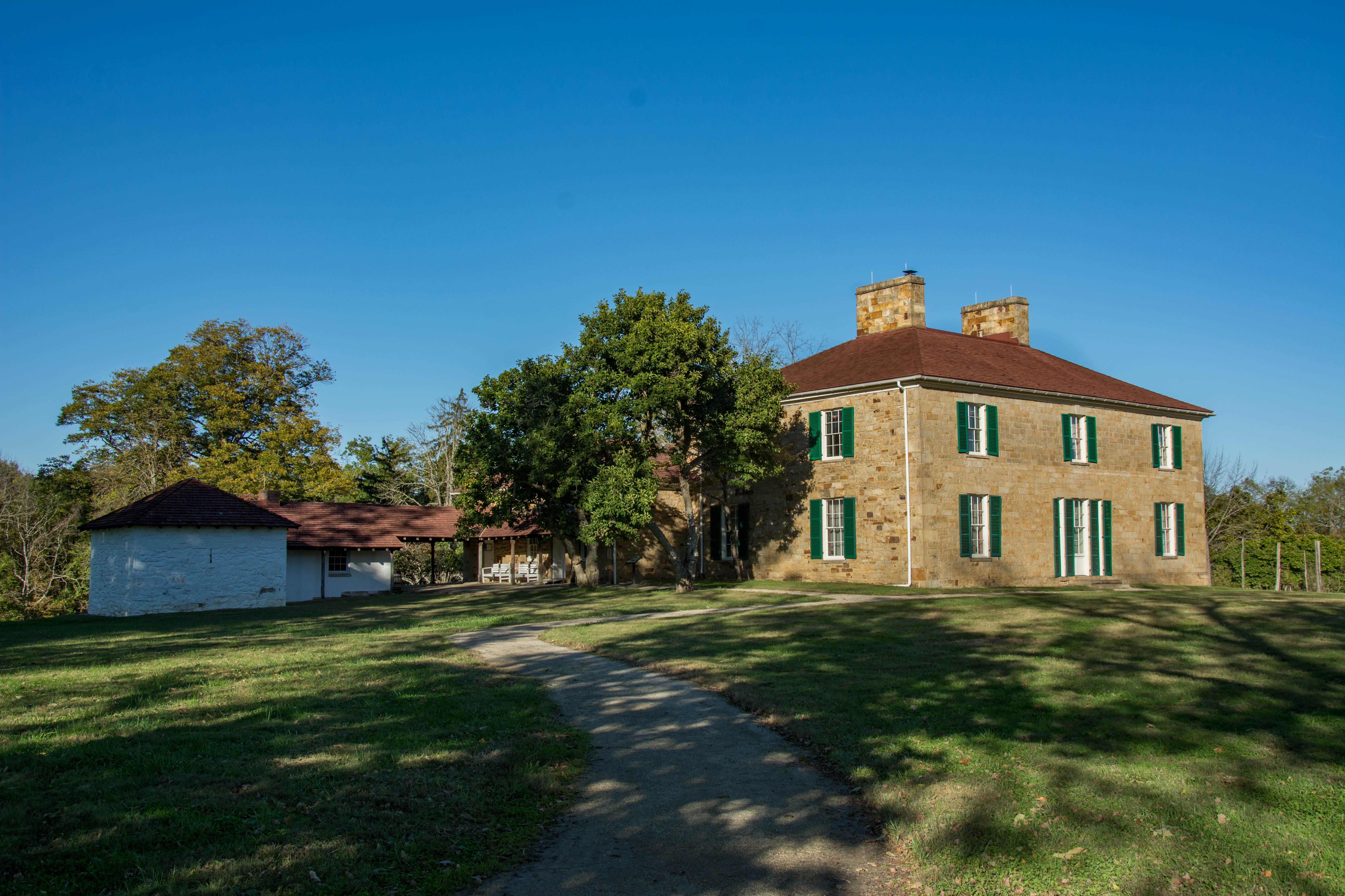 The Adena Mansion in 2018.